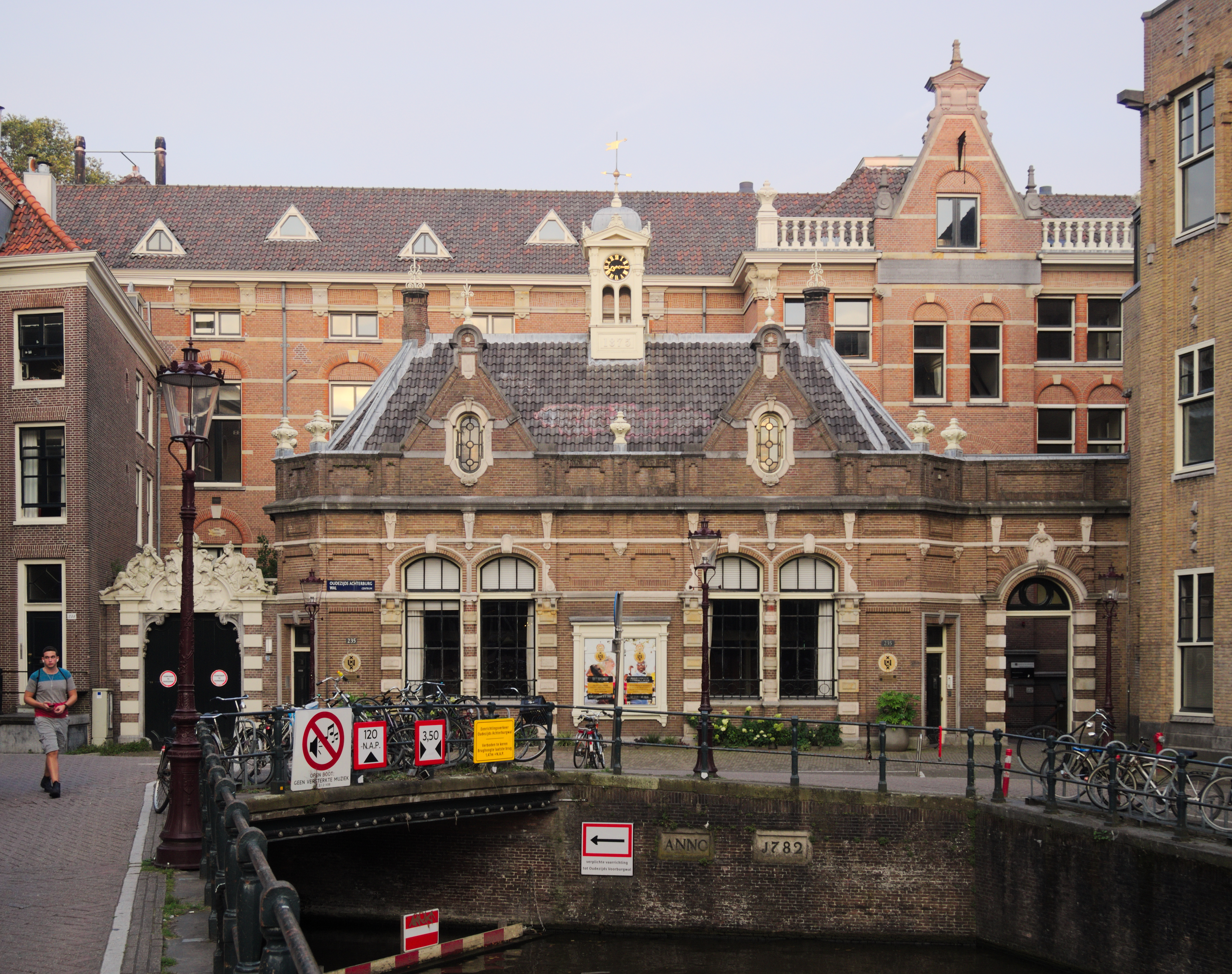 University of Amsterdam, the facade at Oudezijds Achterburgwal 235.